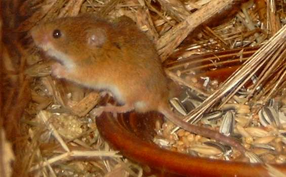 Harvest mouse, micromys minutus, taken at the Chestnut Centre [1], near Chapel en le Frith in Derbyshire. They have a perspex enclosure with a number of harvest mice in captivity. Photo by User:Billlion